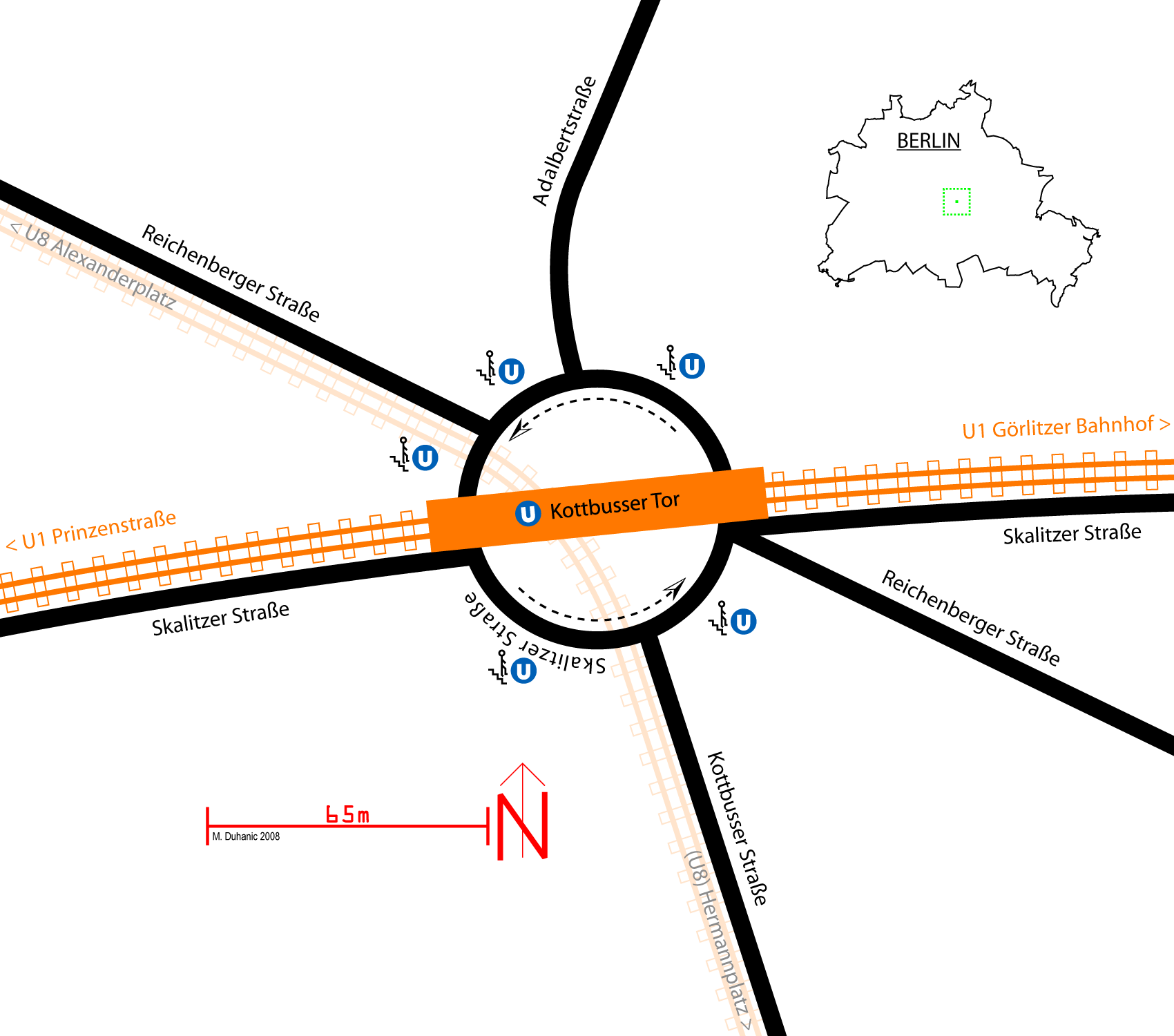 Simplified map of the "Kottbusser Tor" (Cottbus Gate) in Berlin-Kreuzberg with the crossroads and the metro station and its location in Berlin. The traffic is following the central roundabout counter clockwise. There are two metro lines, the U1 going from west to east and the U8 going underground from south to north, following the Kottbusser Straße (coming from Hermannplatz) and continuing the Reichsberger Straße (and later going more north towards Moritzplatz and Alexanderplatz.